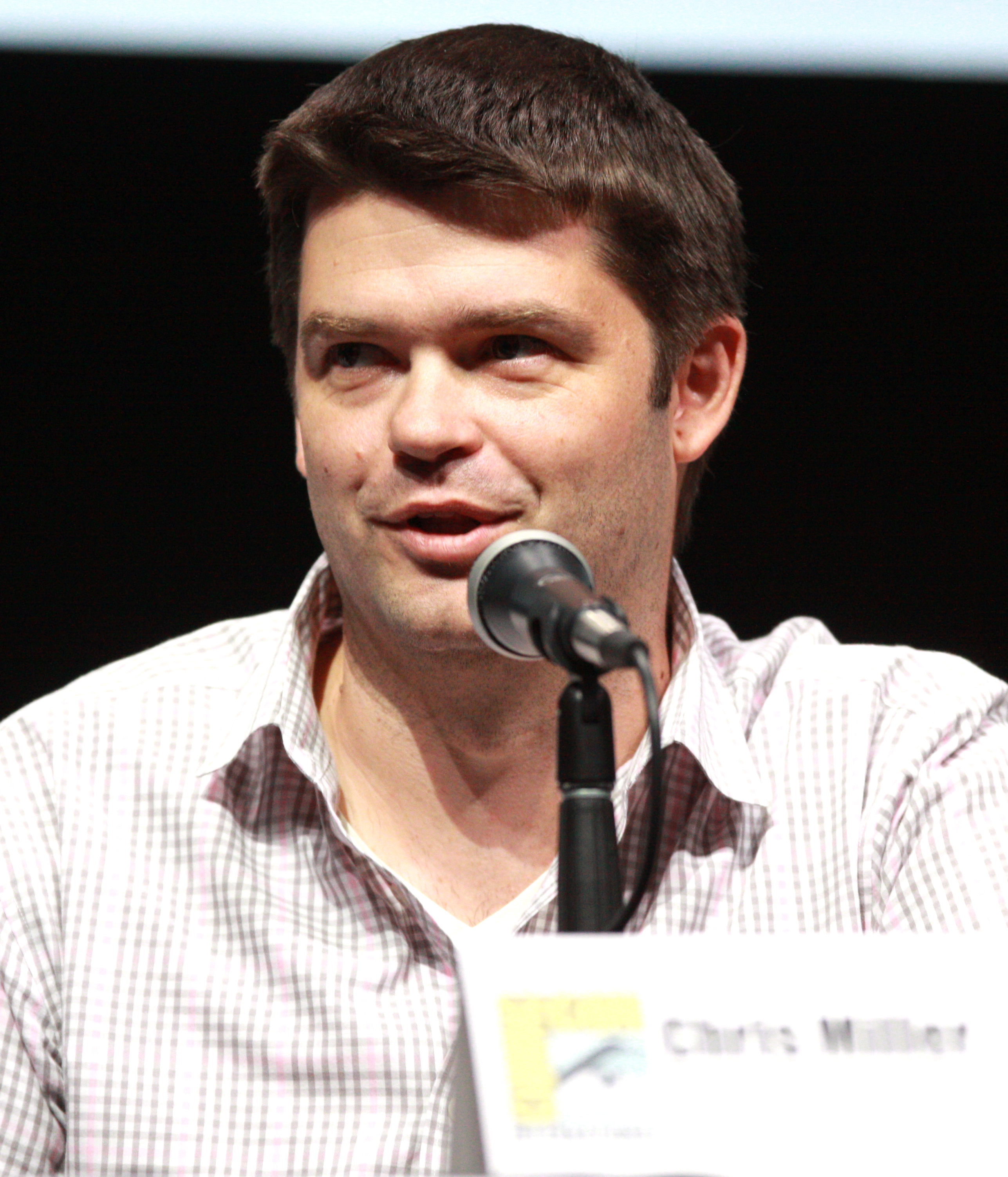 Chris Miller at the 2013 San Diego Comic Con International in San Diego, California.